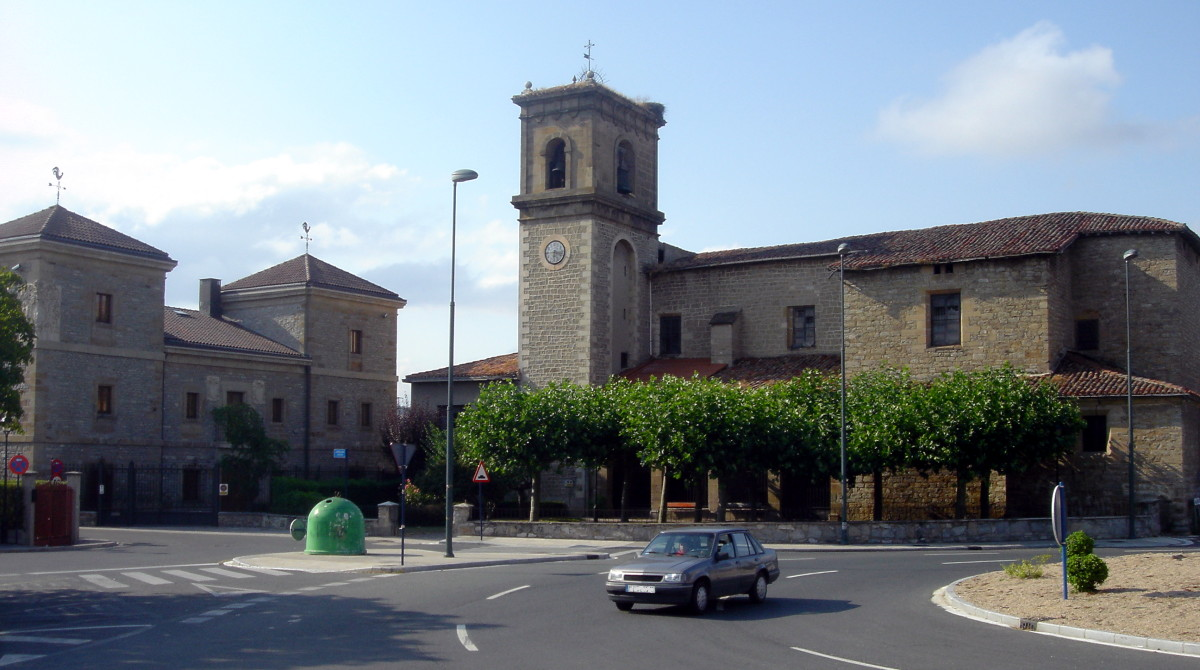 Gamarra village (Vitoria-Gasteiz, Basque Country, Spain)